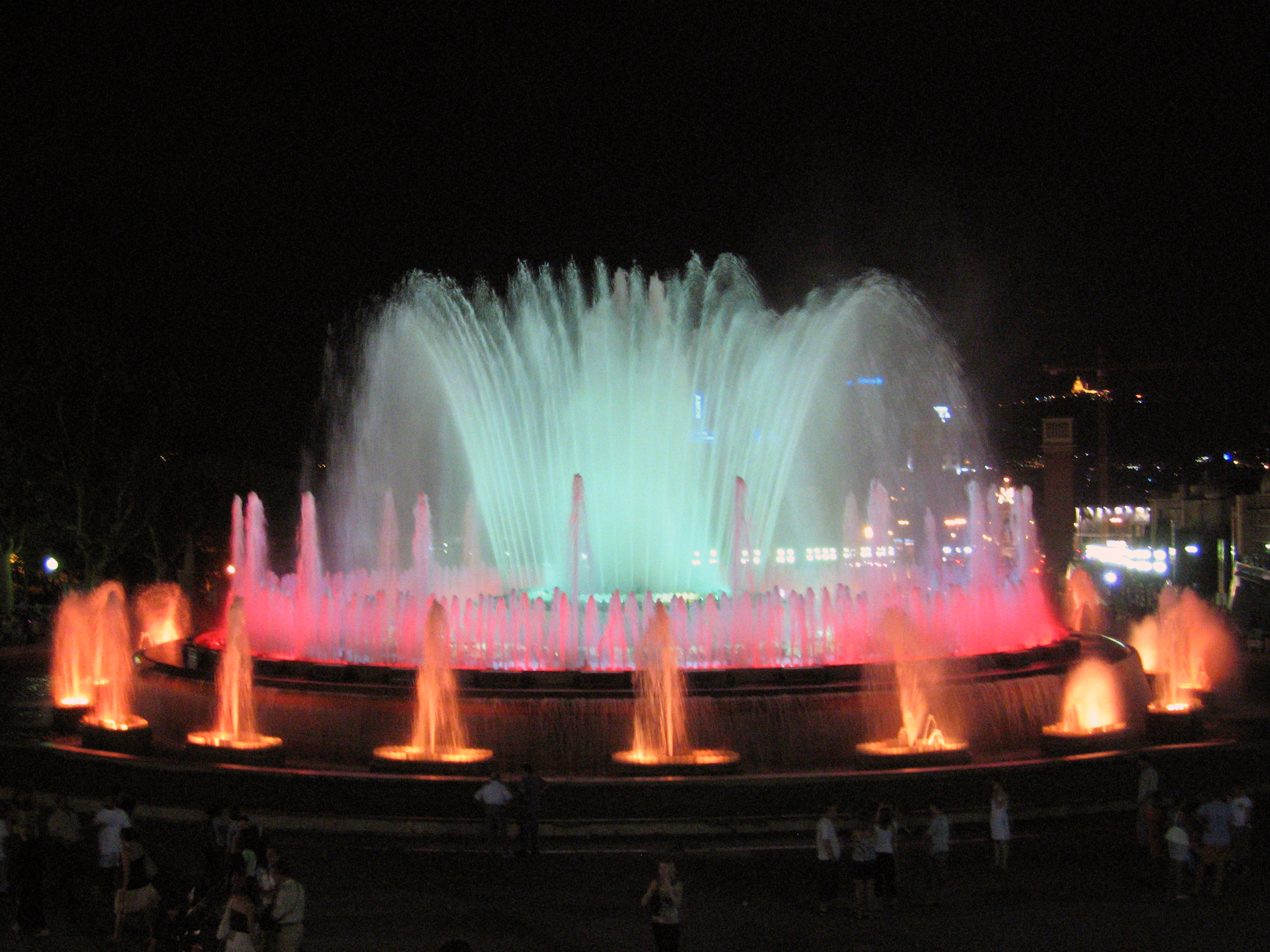 Font Màgica on the Montjuïc in Barcelona (Catalonia).